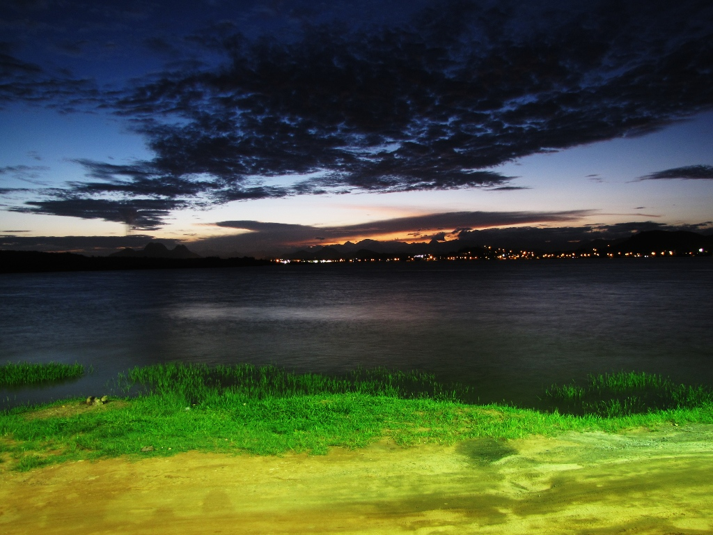 Imboassica Lake and the Mountains on the background. Macaé, Brazil.